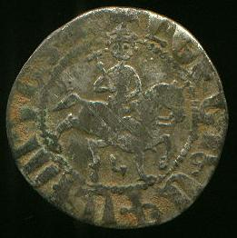 Prince Levon III of Armenia, King Levon II of Armenia.